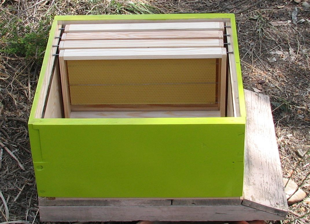 Inside a modern beehive in detail; Author:Daniel Feliciano ; Location:Torres Novas - Portugal